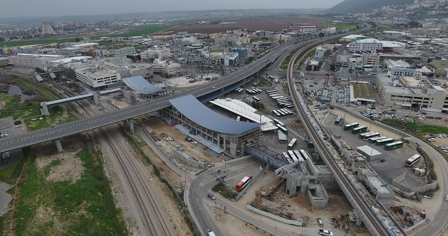 Mercazit ha Mifrazt transportation center while constructing